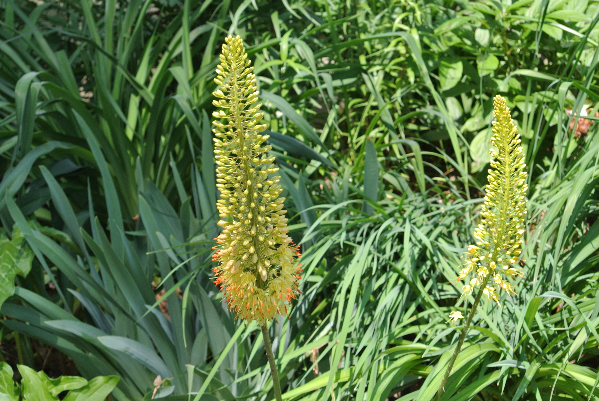 Eremurus bungei flowering in the garden of botanist Robert R. Kowal in Madison, Wisconsin.